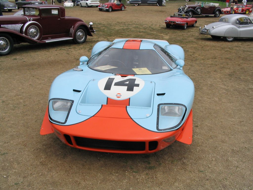 Gulf GT40 Mirage built in 1967, photographed by Ramgeis in Pebble Beach, California in August 2004, GNU-FDL first upload in de wikipedia on 05:17, 17 October 2004 by Ramgeis